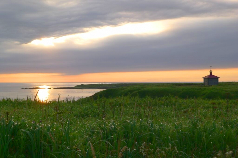 Orthodox church on Tanfilyeva Island